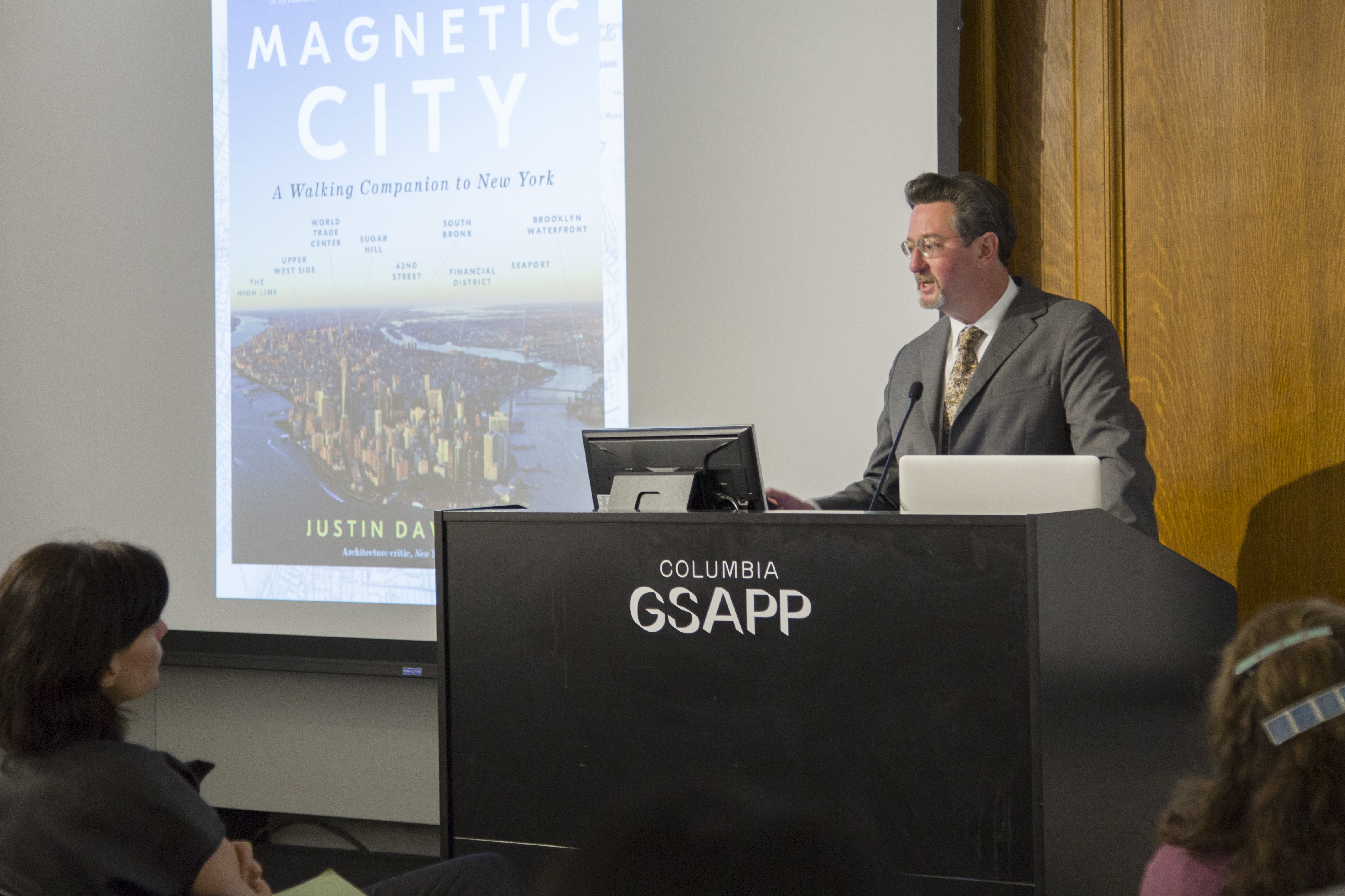 Justin Davidson introduces his book Magnetic City: A Walking Companion to New York at Columbia GSAPP